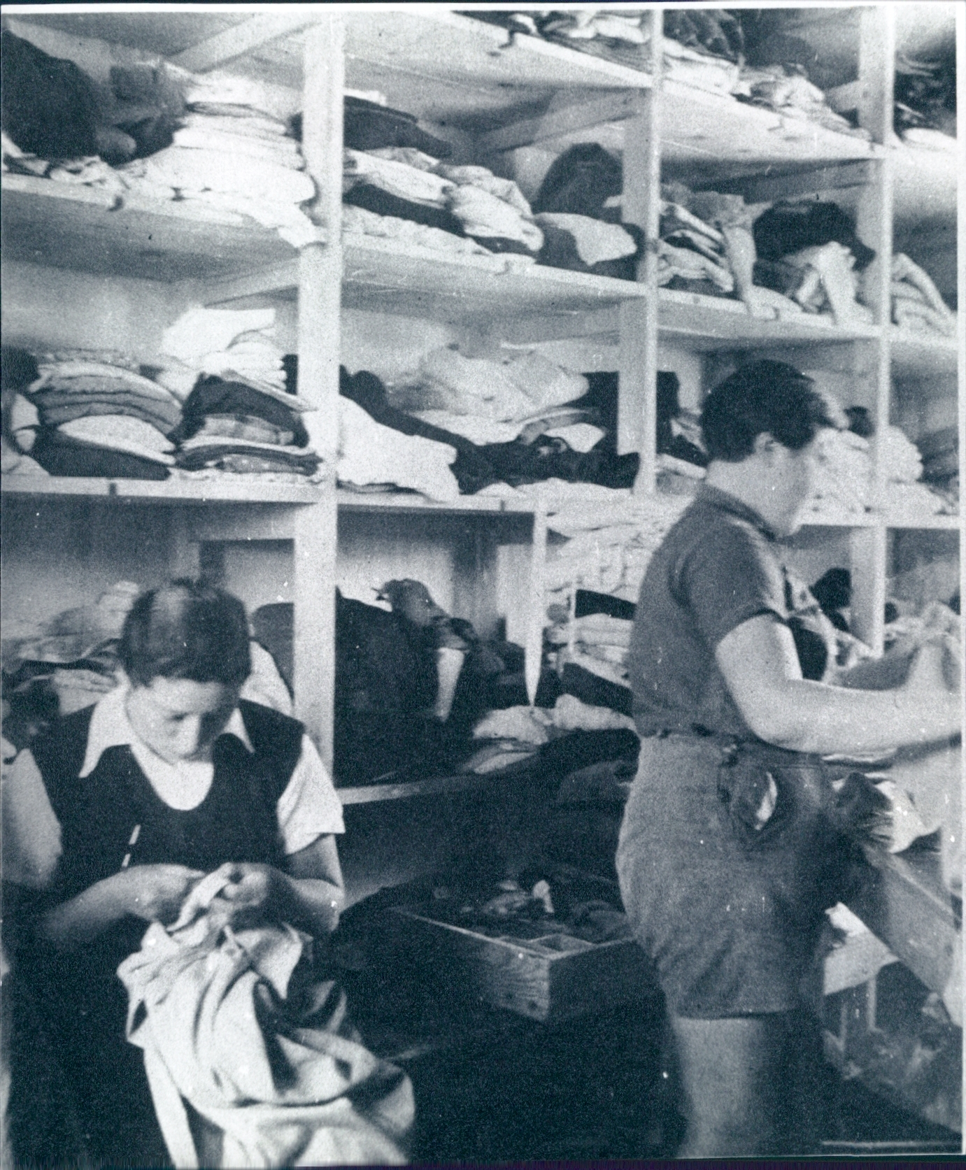 The Religious Kibbutz Movement, Settlements in Israel